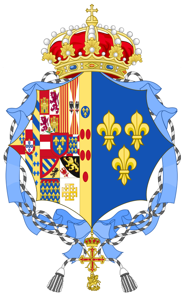 Unofficial coat of arms of Princess Anne, Dowager Duchess of Calabria (Spanish Heraldry)